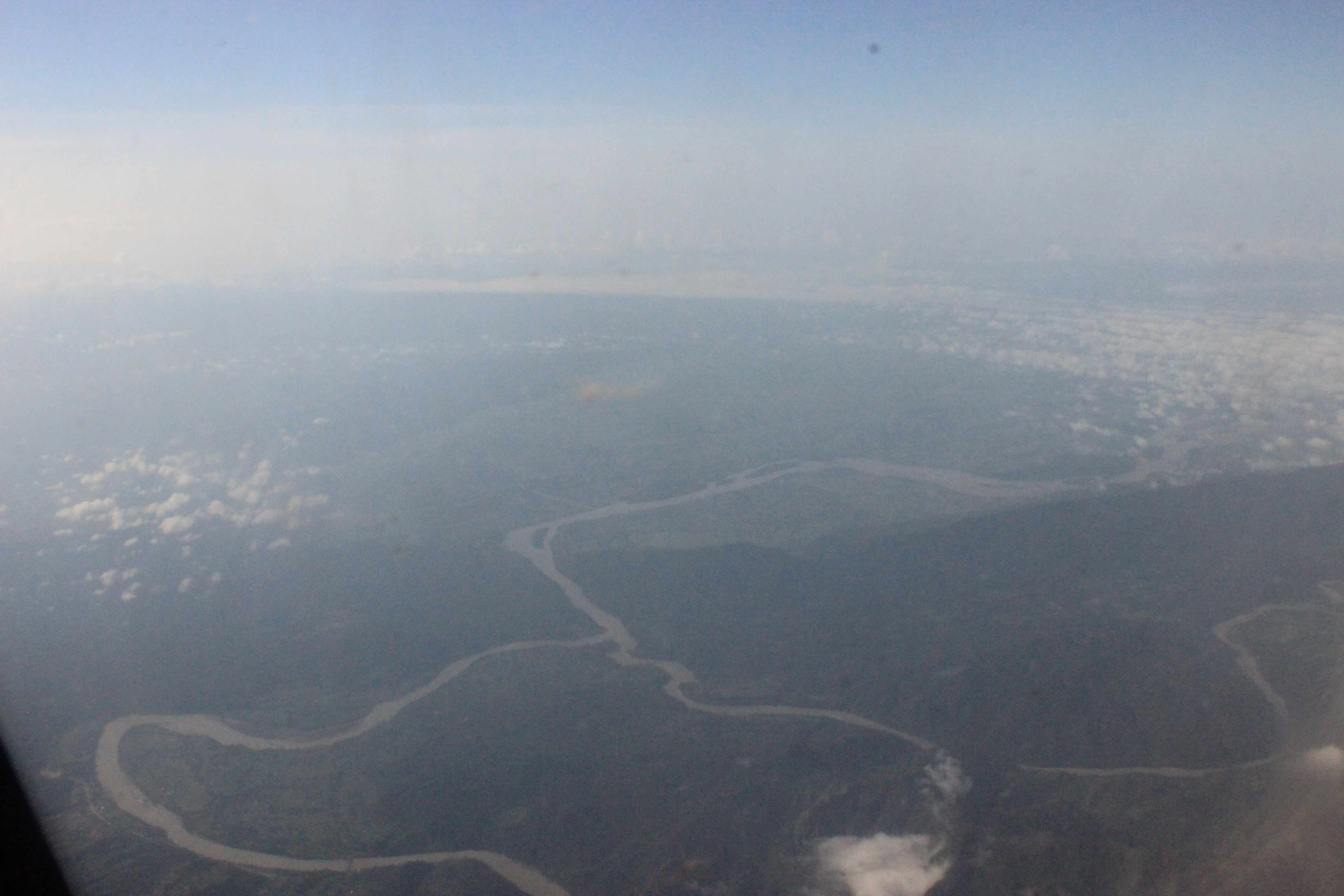 In Hindu tradition Devghat is the "confluence" of two rivers, Trishuli & Gandaki.